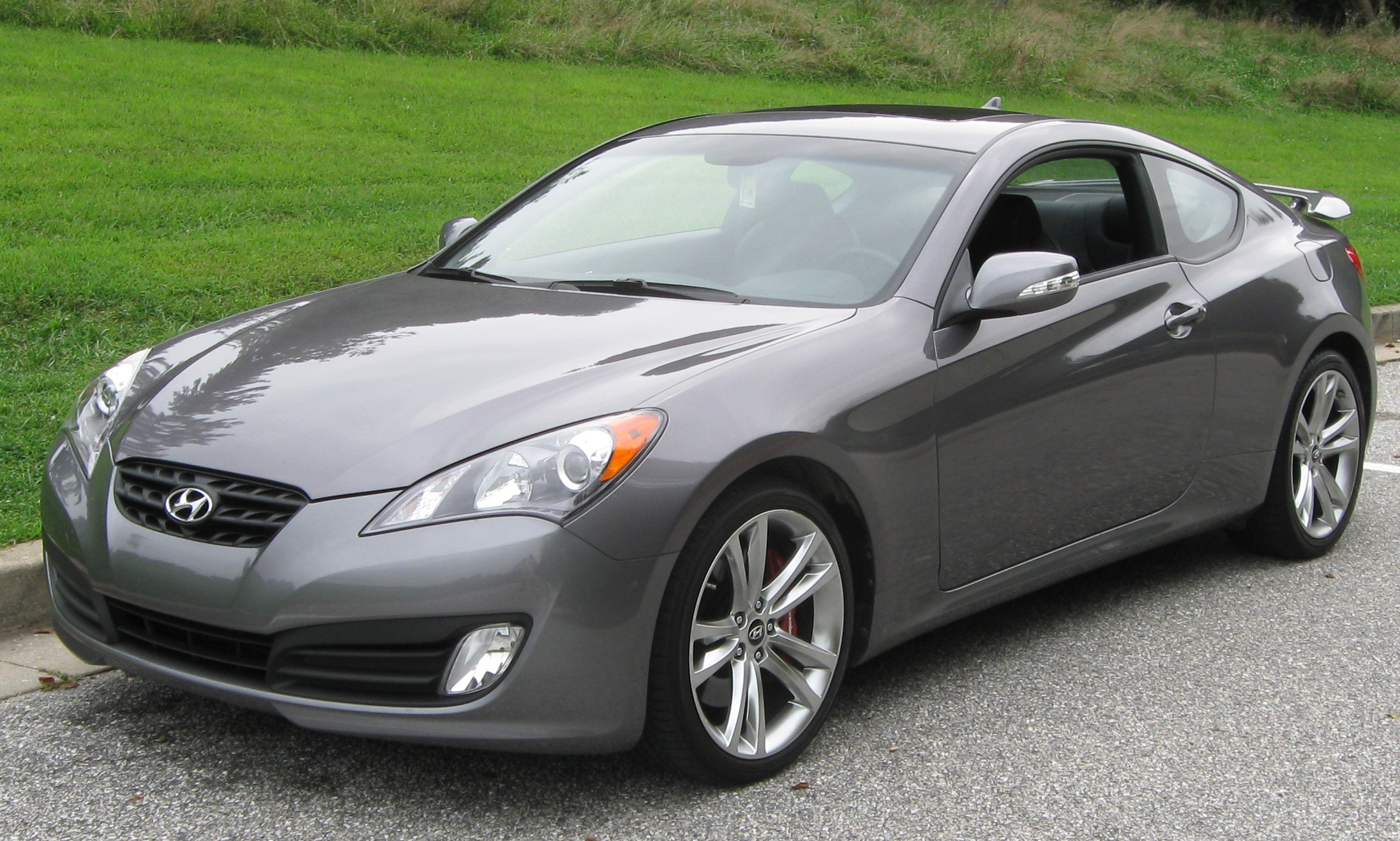 2010 Hyundai Genesis Coupe 3.8 Track photographed in Ellicott City, Maryland, USA.